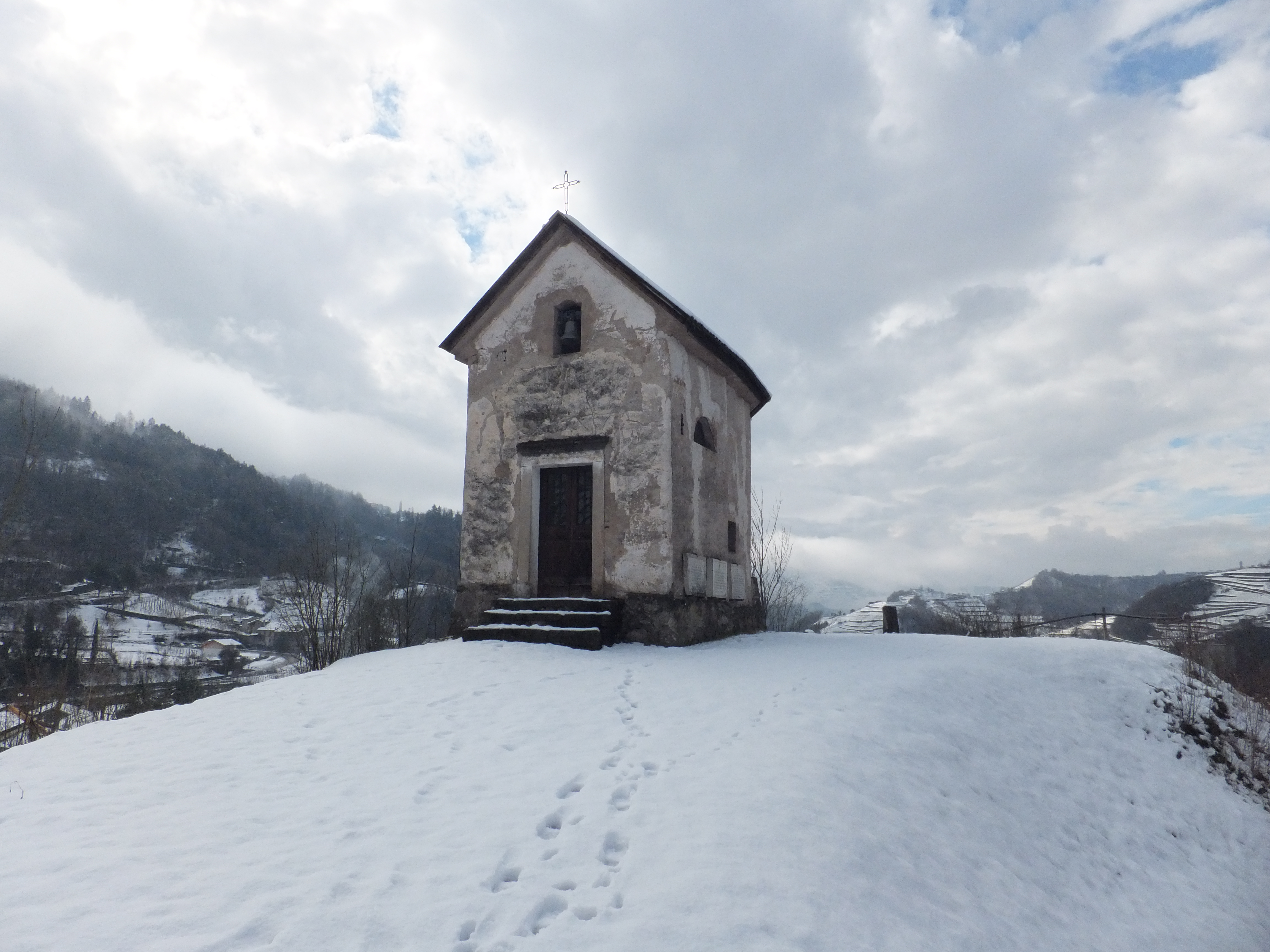 Piazzo (Segonzano, Trentino-Alto Adige, Italy) - Chapel of Saint Anthony